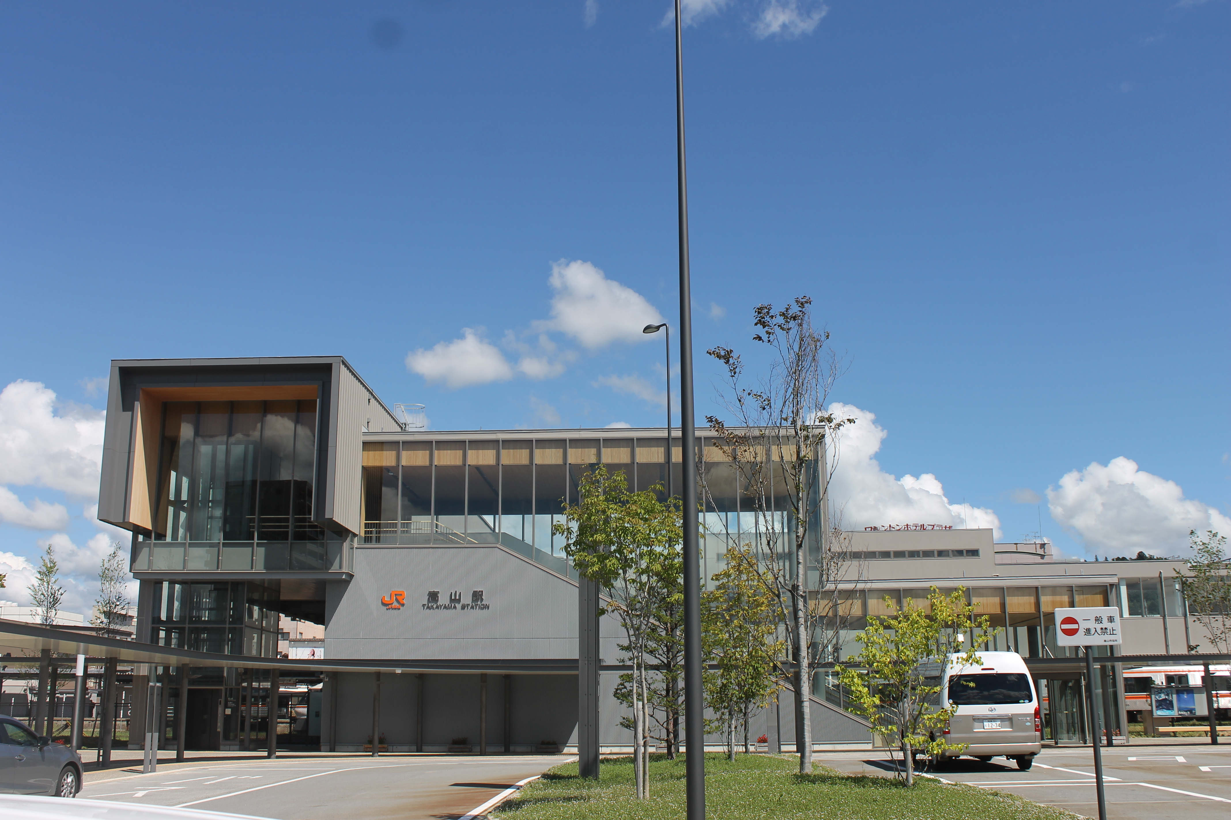 West Entrance of Takayama Station located in Takayama, Gifu.